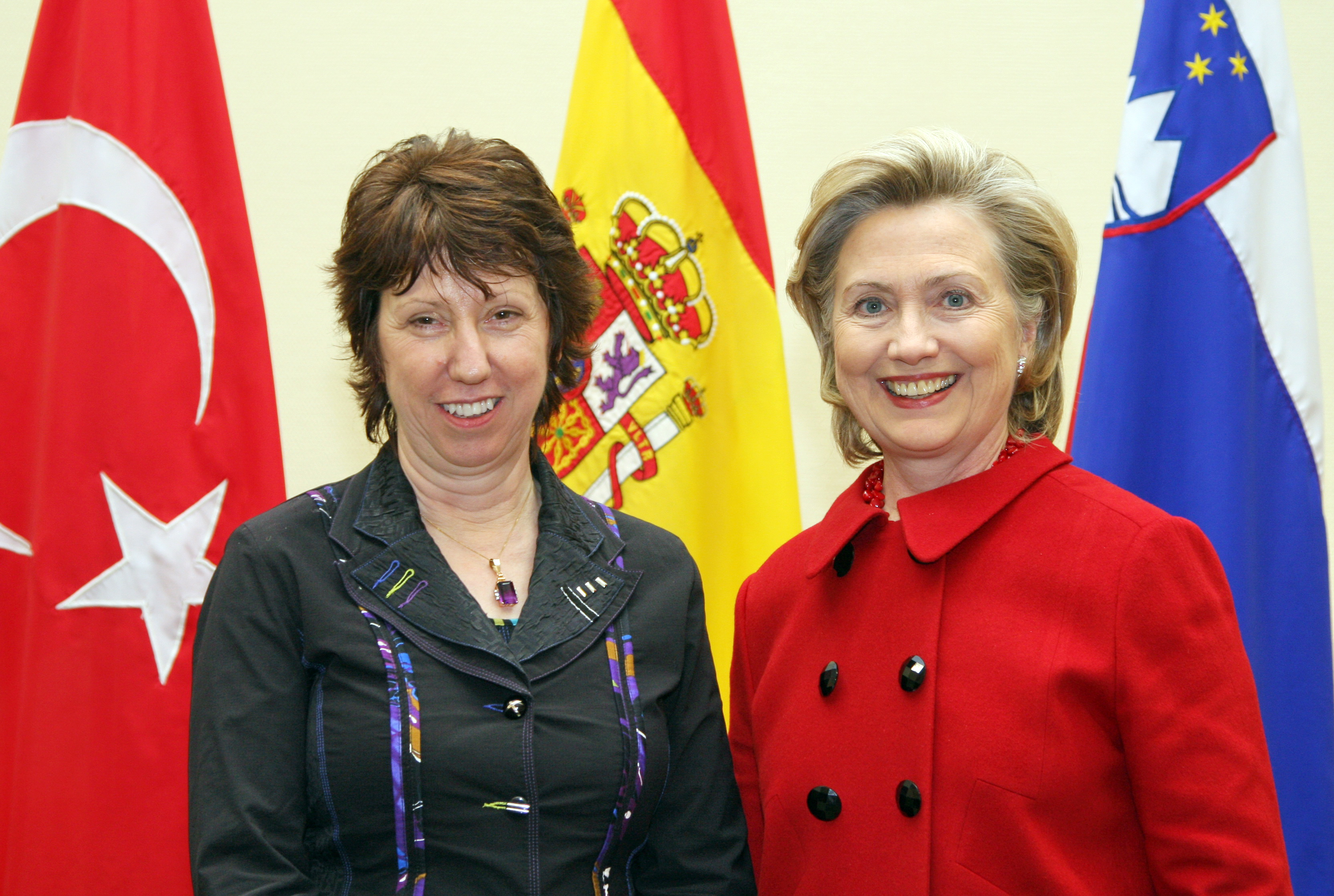 U.S. Secretary of State Hillary Rodham Clinton meets with EU High Representative Catherine Ashton between meetings at NATO headquarters in Brussels, Belgium December 4, 2009. U.S. Embassy Brussels photo by Freddy Moris.